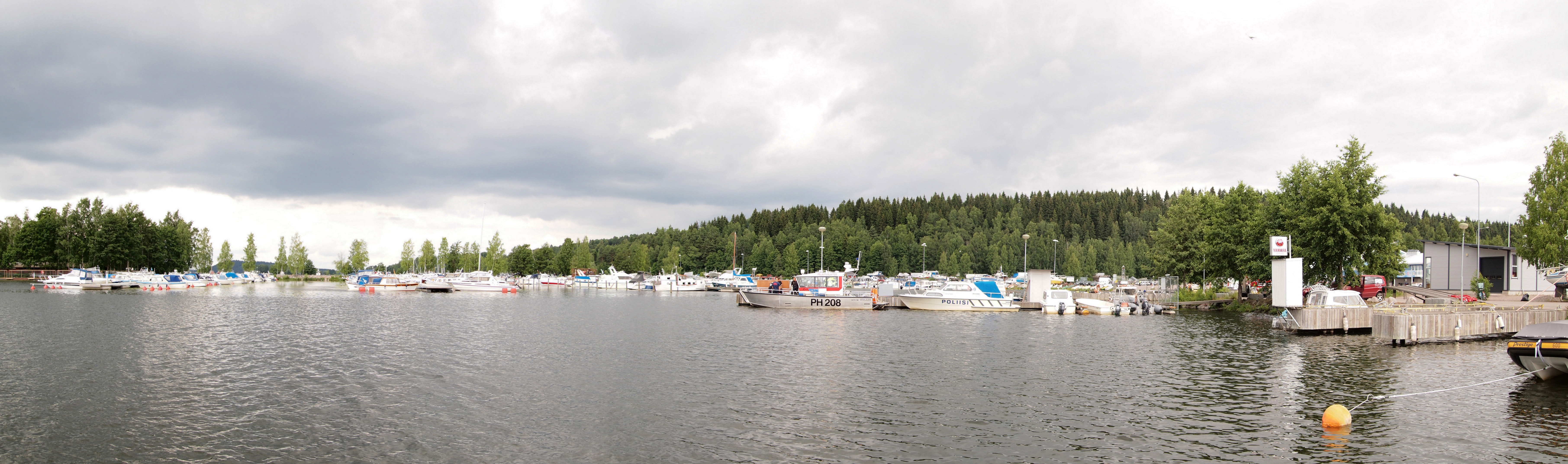 View to boats on the lake Vesijärvi on Niemi harbour in Lahti.